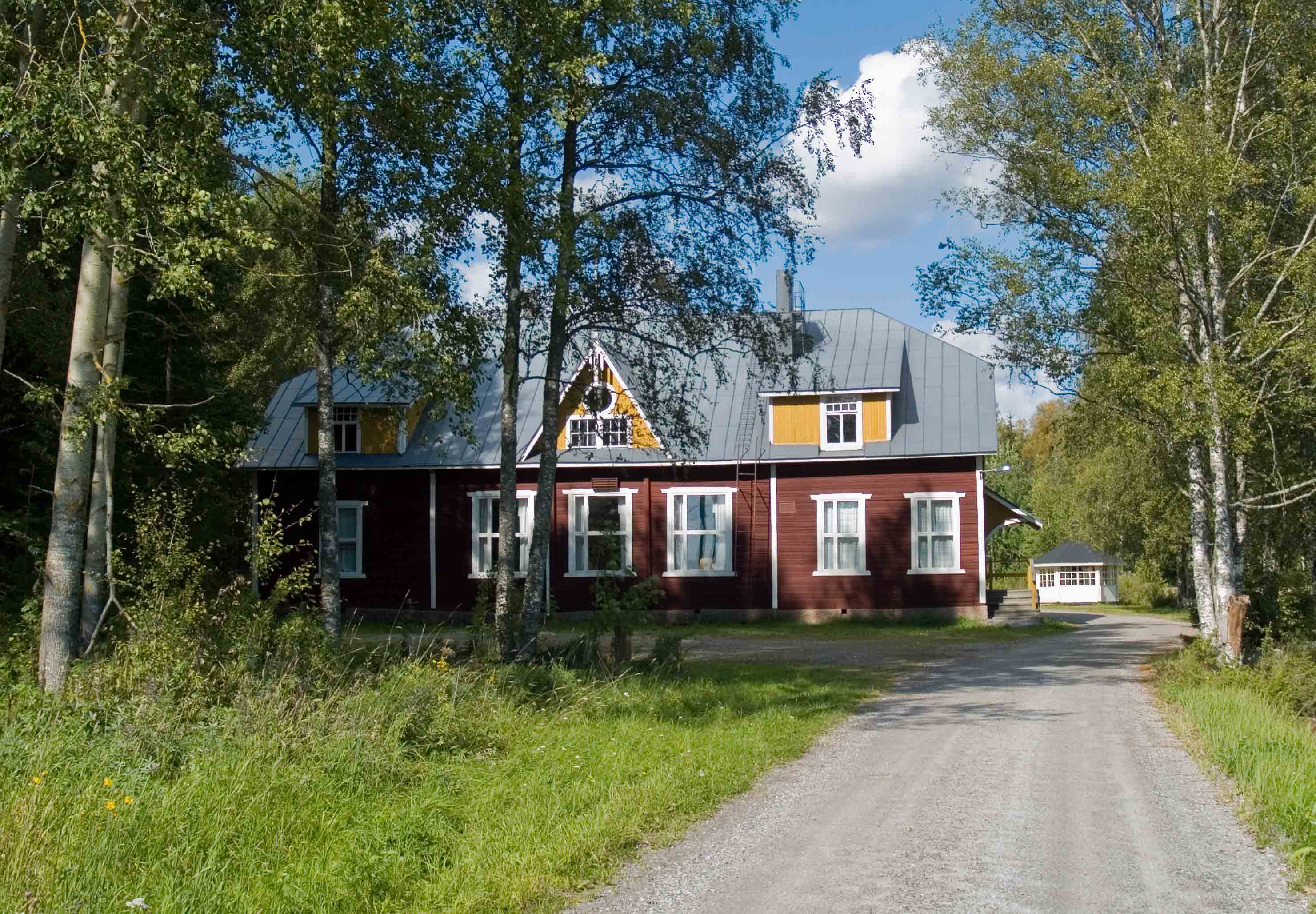 Village social hall in Munakka, Ilmajoki, Finland.